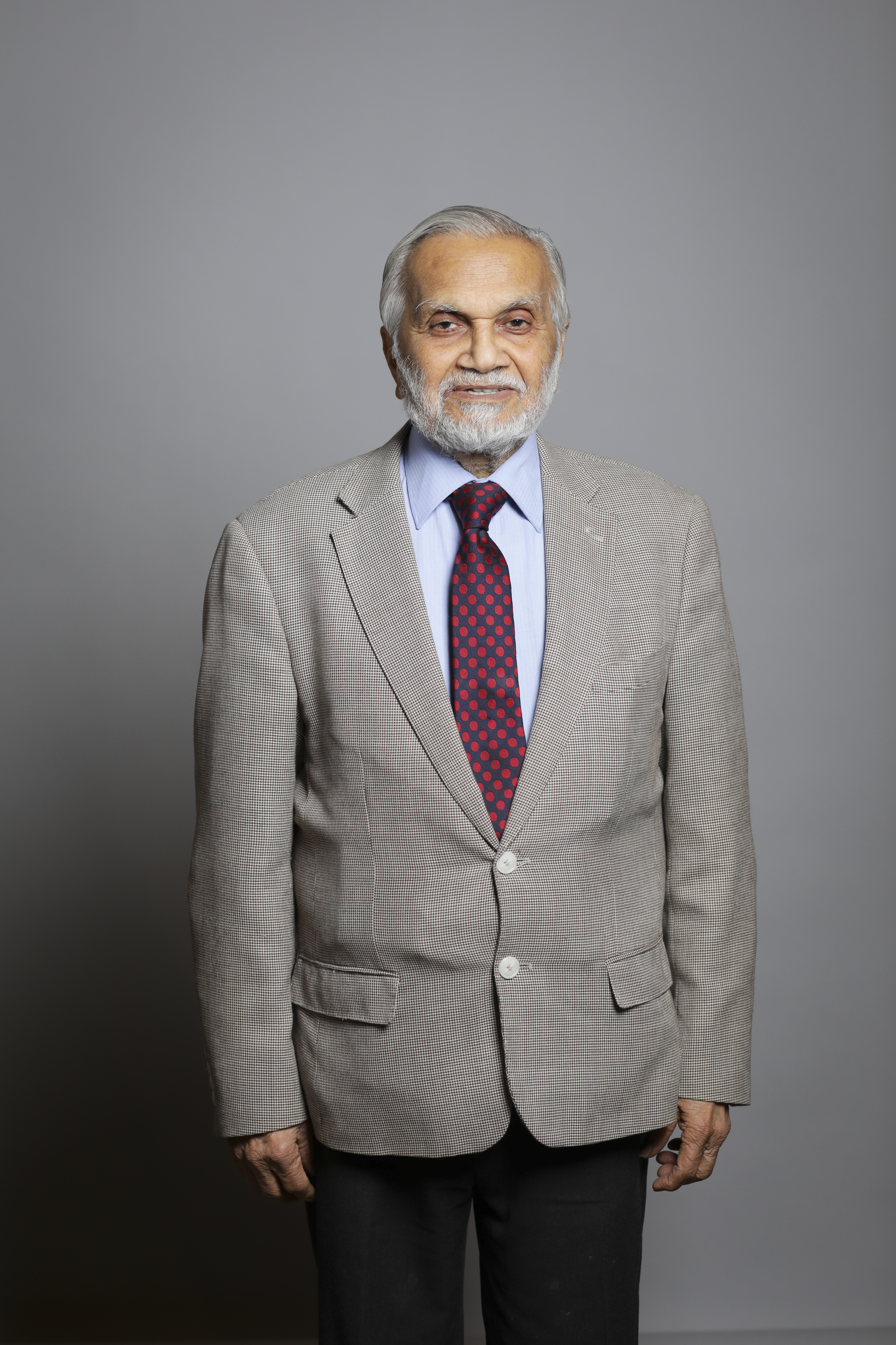 Official portrait of Lord Parekh Full sized portrait of Lord Parekh